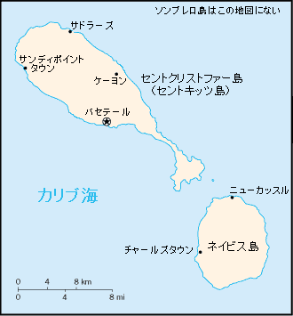 Map of Saint_Kitts_and_Nevis